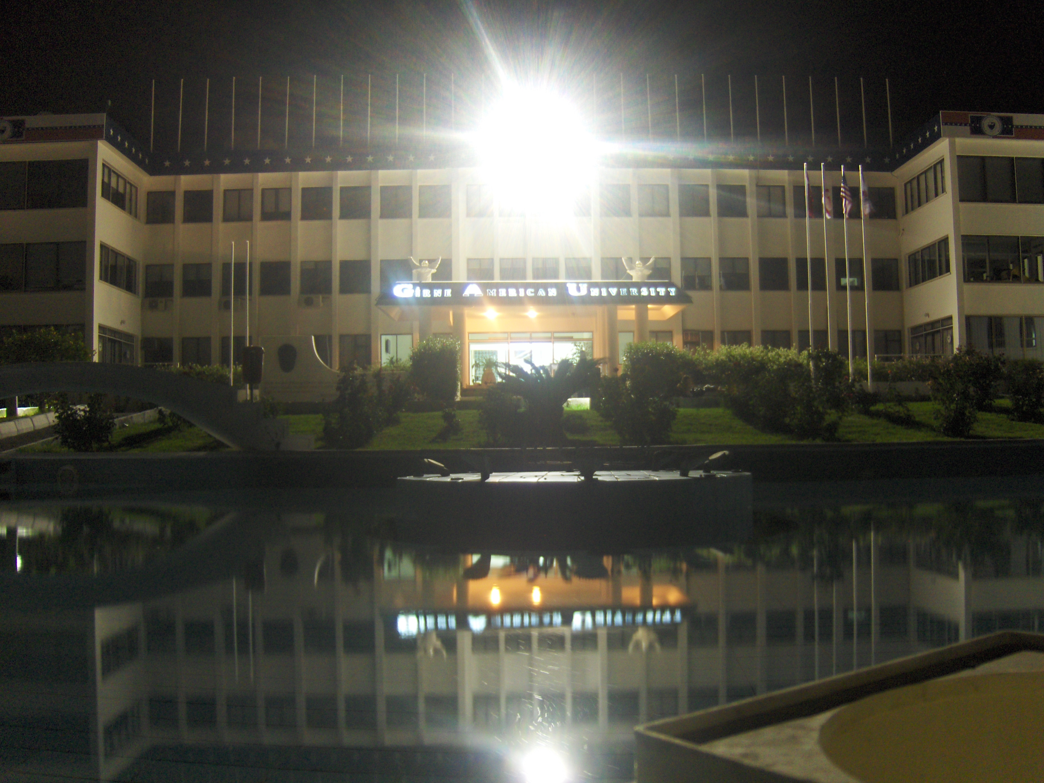 Girne American University.